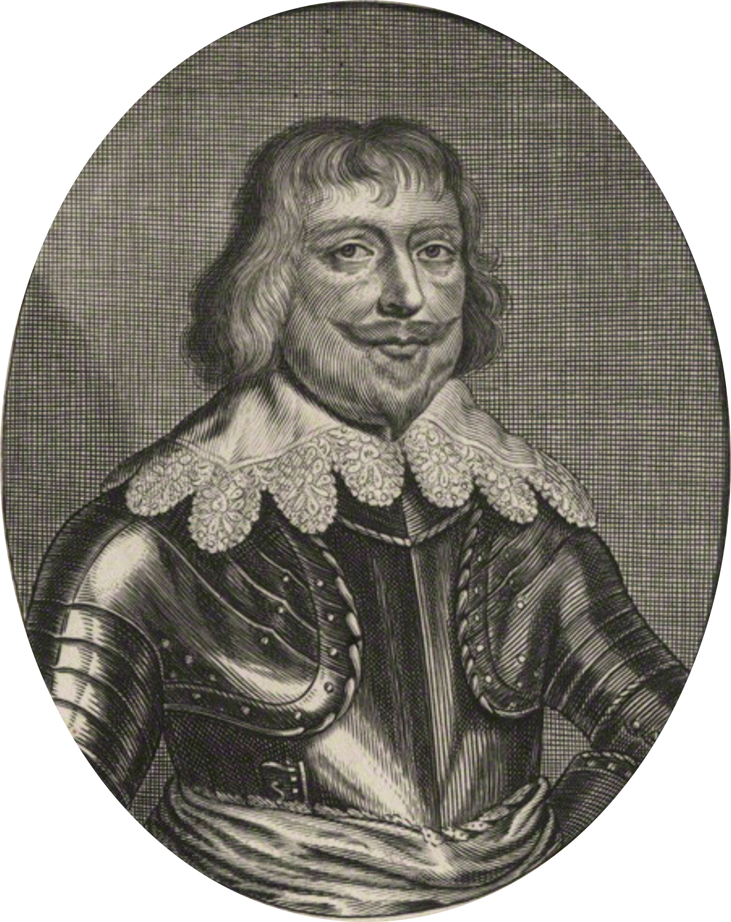 probably by William Faithorne, after Unknown artist, line engraving, 1643. 6 3/4 in. x 5 in. (172 mm x 128 mm) plate size; 8 7/8 in. x 6 1/8 in. (224 mm x 154 mm) paper size. Given by Henry Witte Martin, 1861